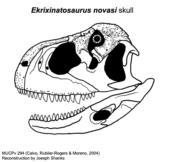 Skull diagram of Ekrixinatosaurus novasi.